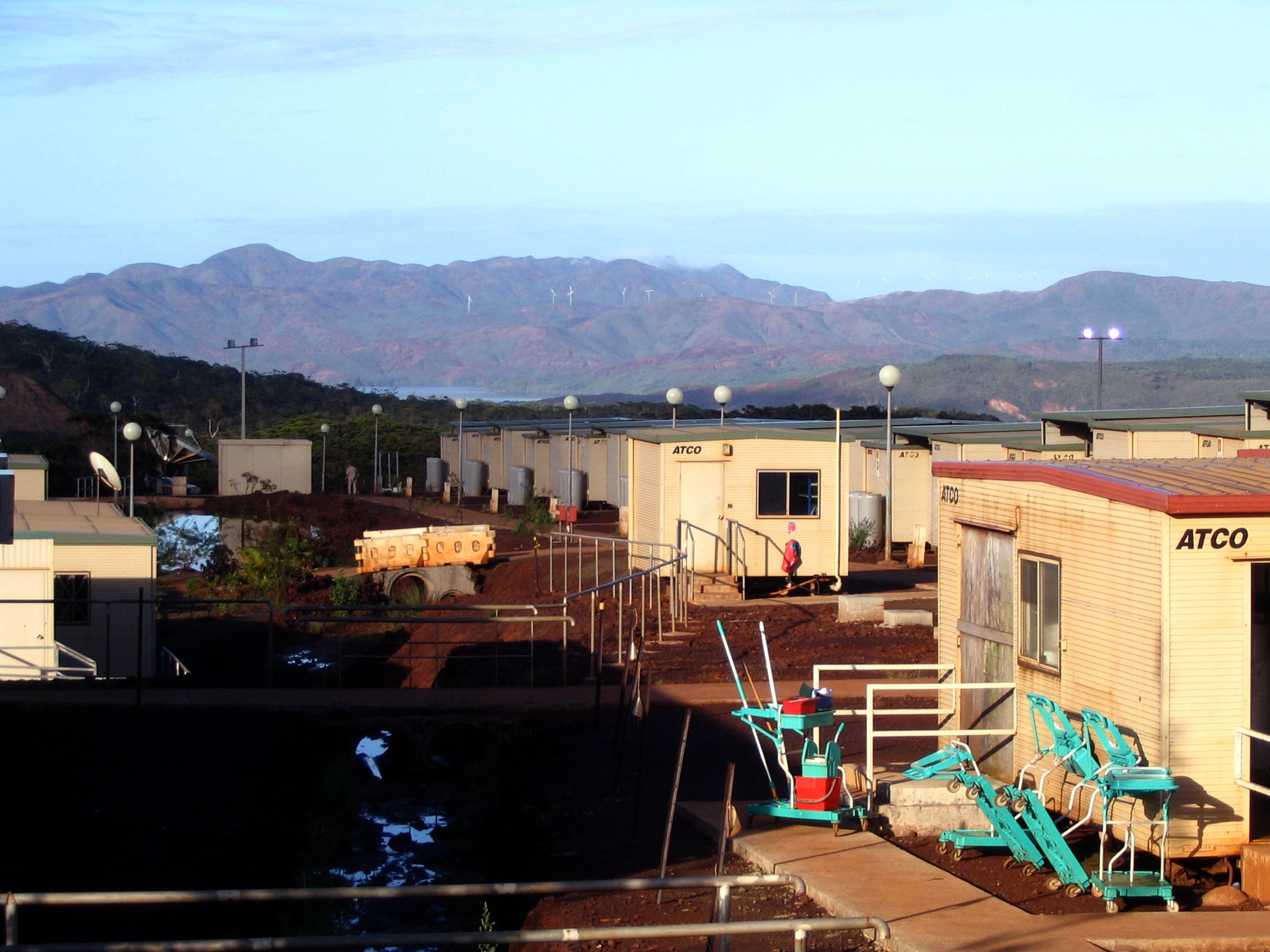 View of a mining camp Goro Nickel, New Caledonia